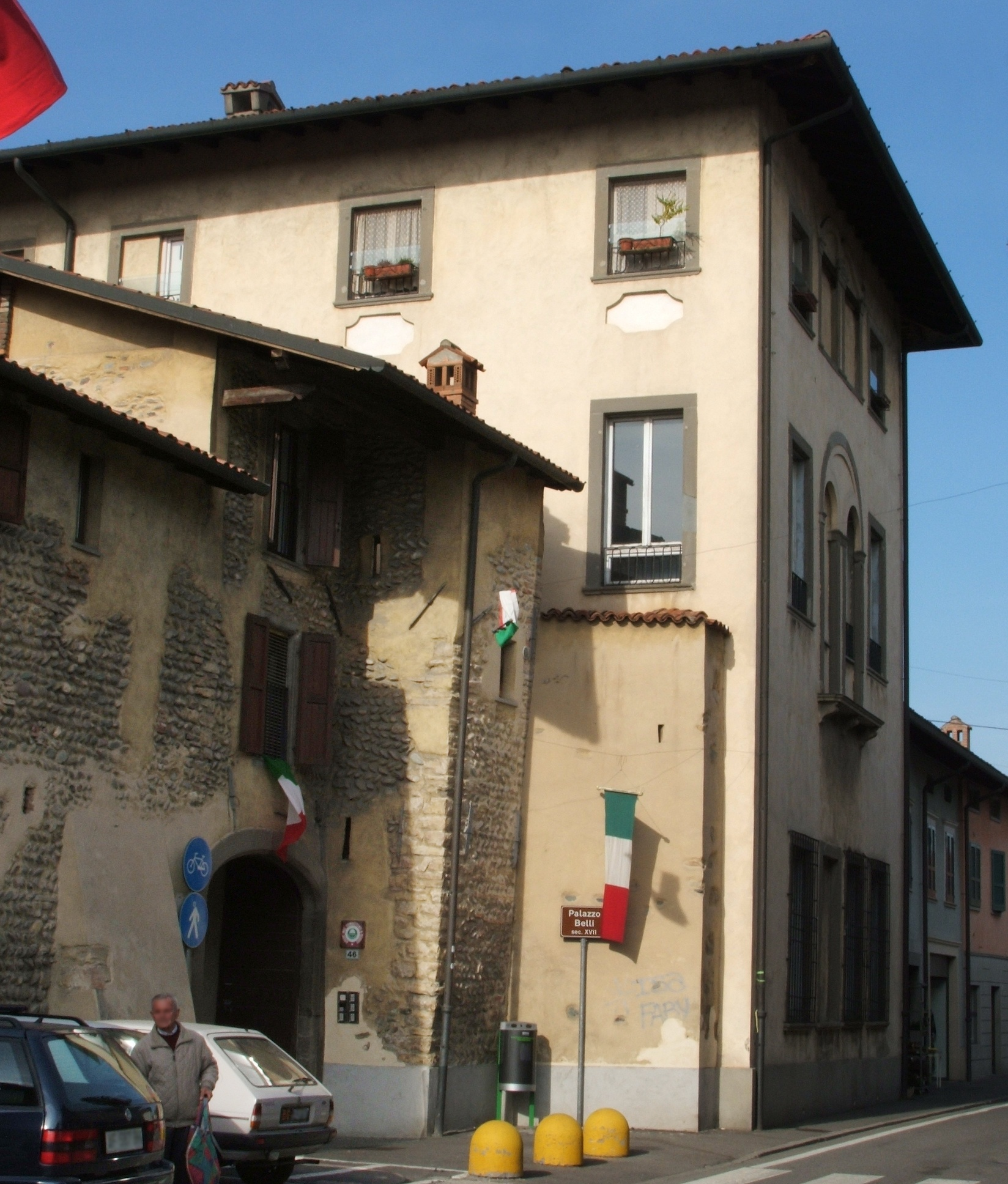 Grassobbio, Bergamo, Italy - Belli palace XVII century